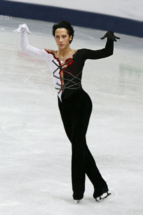 2008 World Championships. Johnny Weir